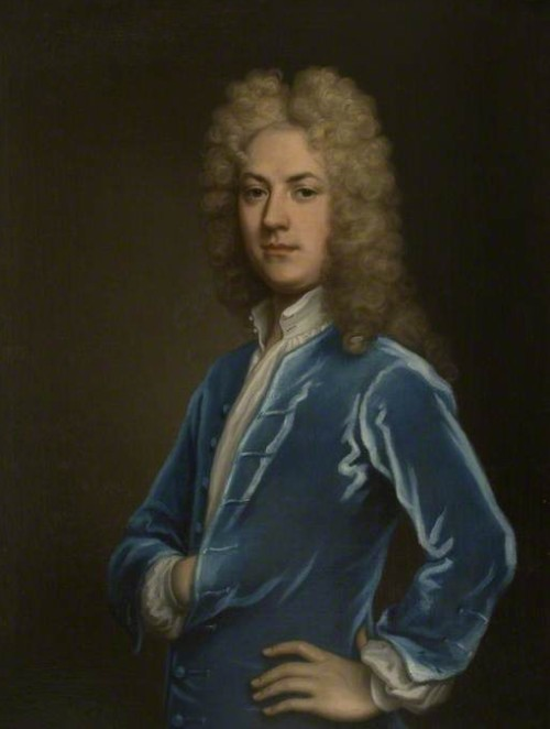 Sir Justinian Isham III (1687-1737), 5th Baronet of Lamport by Hugh Howard